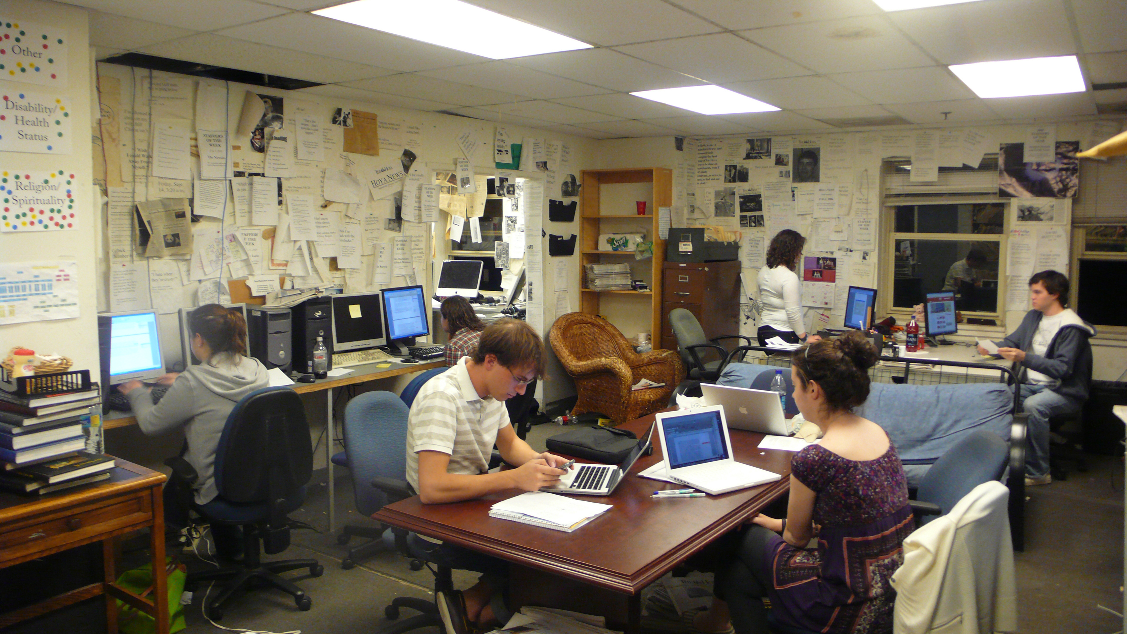 Office the The Hoya student newspaper on the fourth floor of the Leavey Center on Georgetown University's main campus in Washington, D.C.